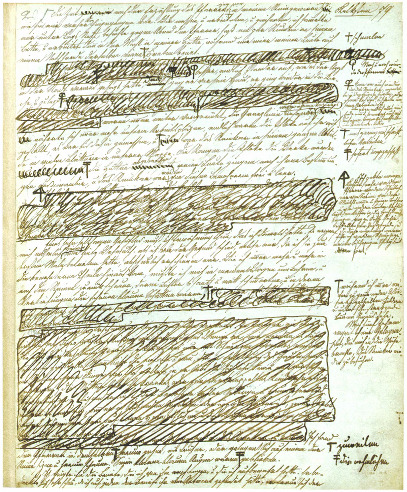 One page of the manuscript Kalkstein by Adalbert Stifter. Edited with erased parts and notes in the margins.